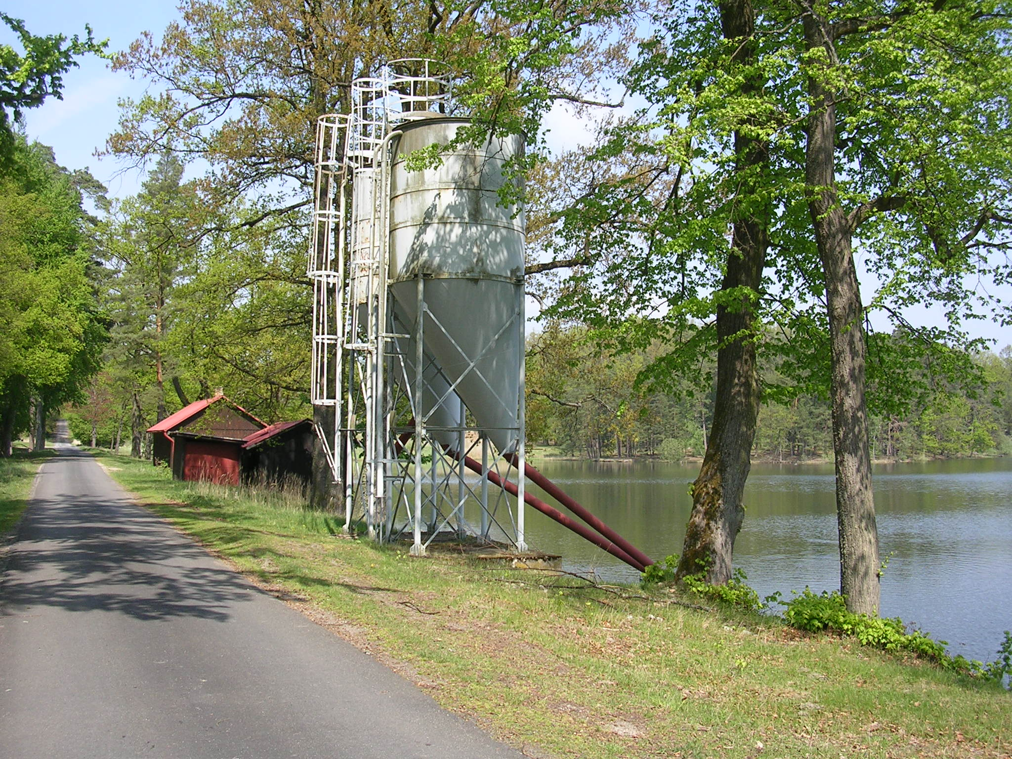 Velká Holná Pond, Ratiboř and Hatín, South Bohemian Region, the Czech Republic.